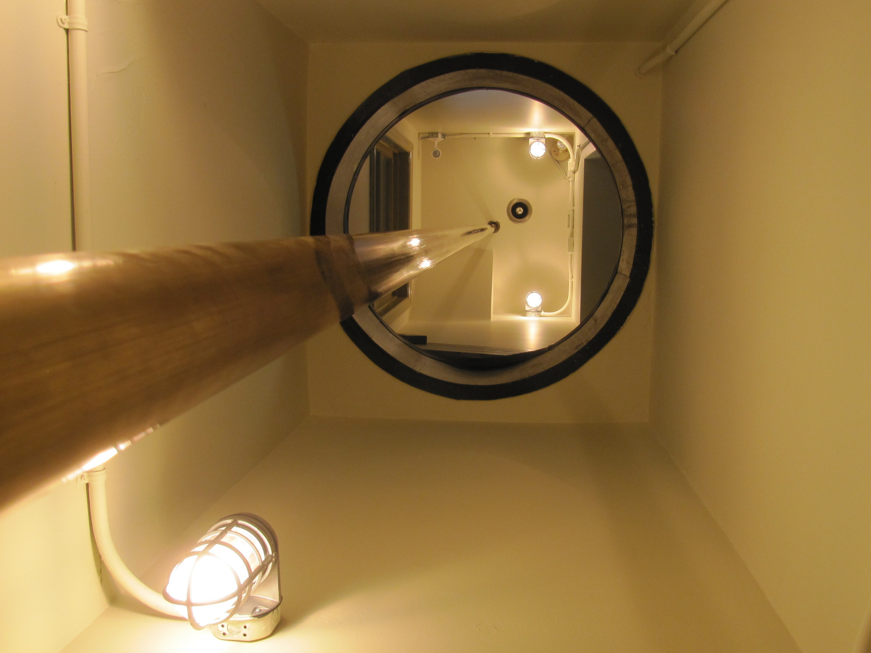 Peering up the pole at Fire Station 227 during Doors Open Toronto 2011.